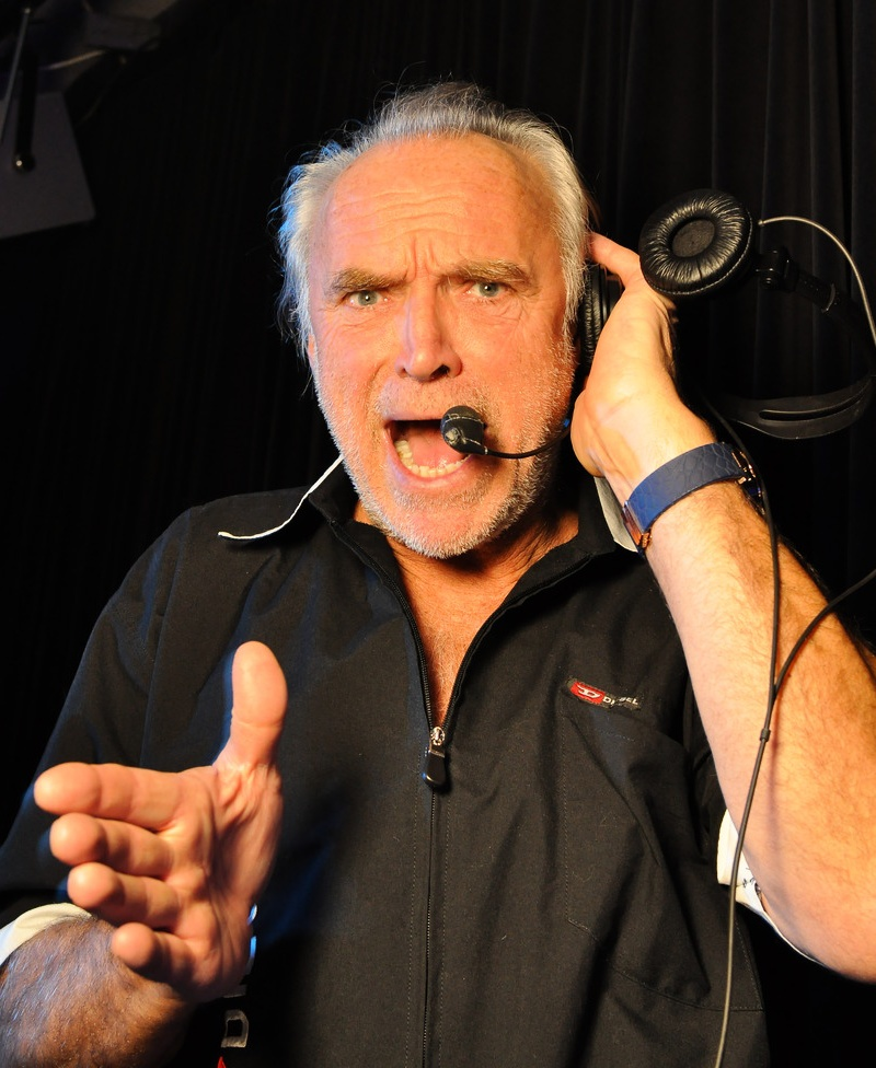 Claes "Clabbe" af Geijerstam performing at Teatercafet, Umeå, Sweden.